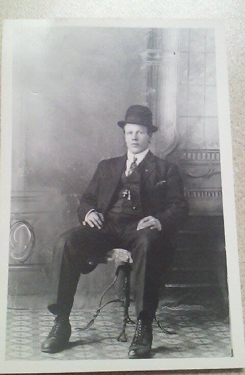 Young Harry Kalenze